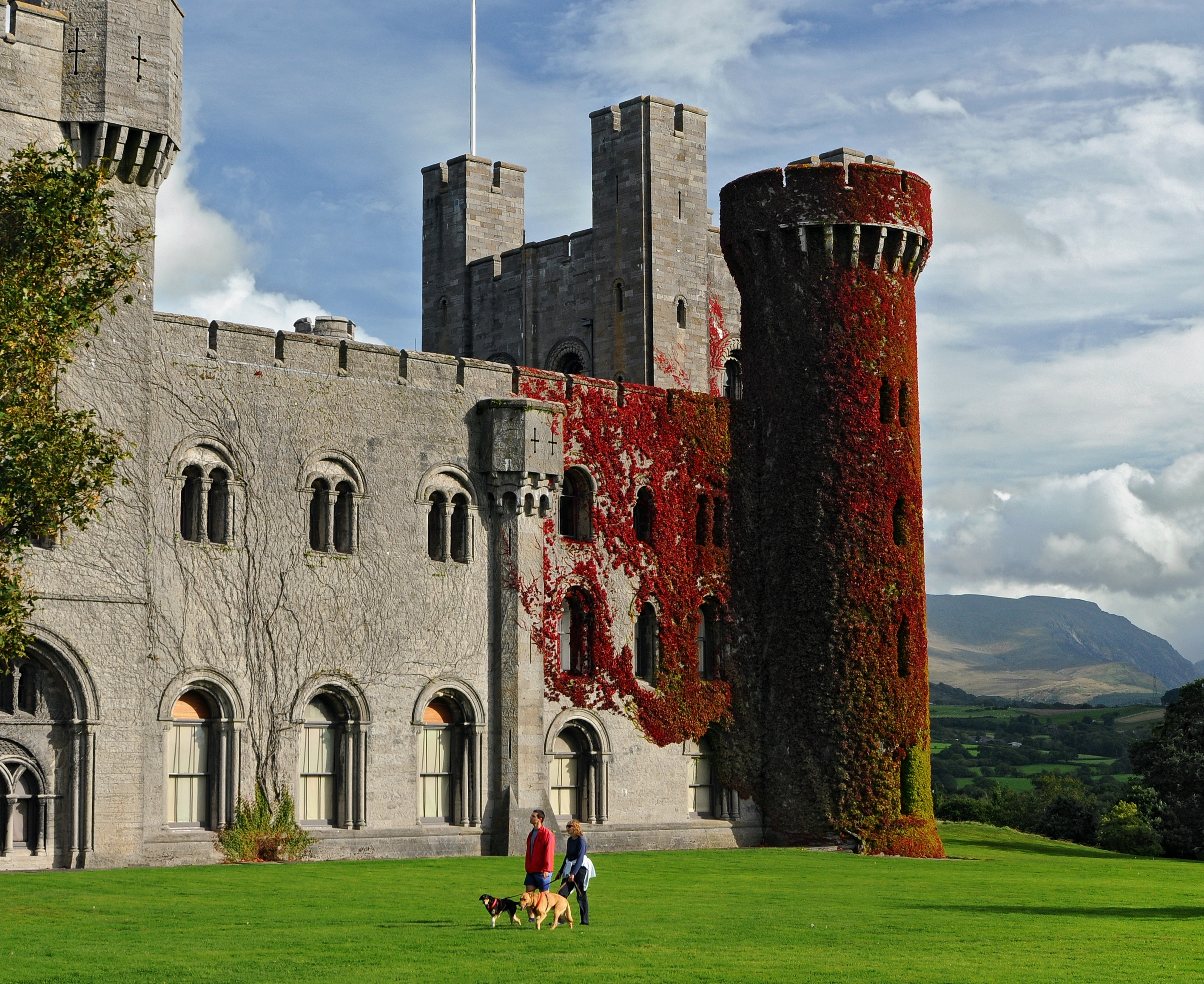 Penrhyn Castle - Walk before tea